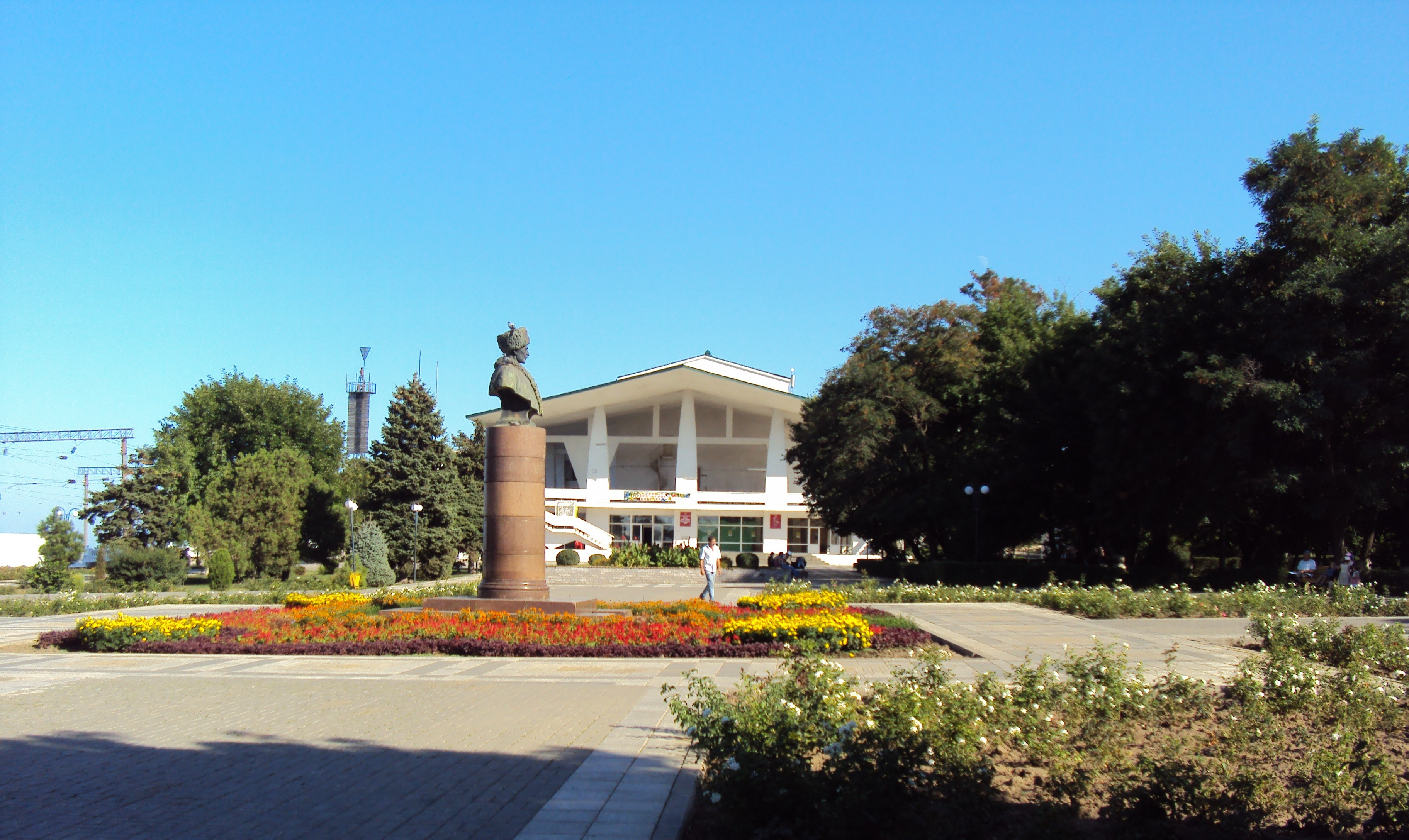 Avar State Music and Drama Theatre in Makhachkala